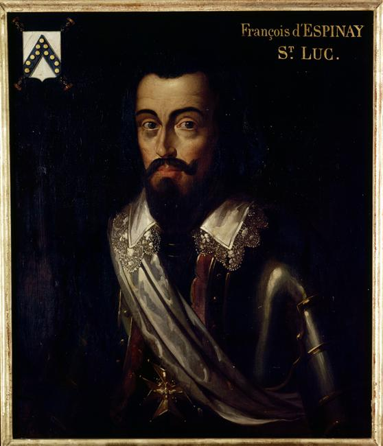 ArtistUnknownTitle